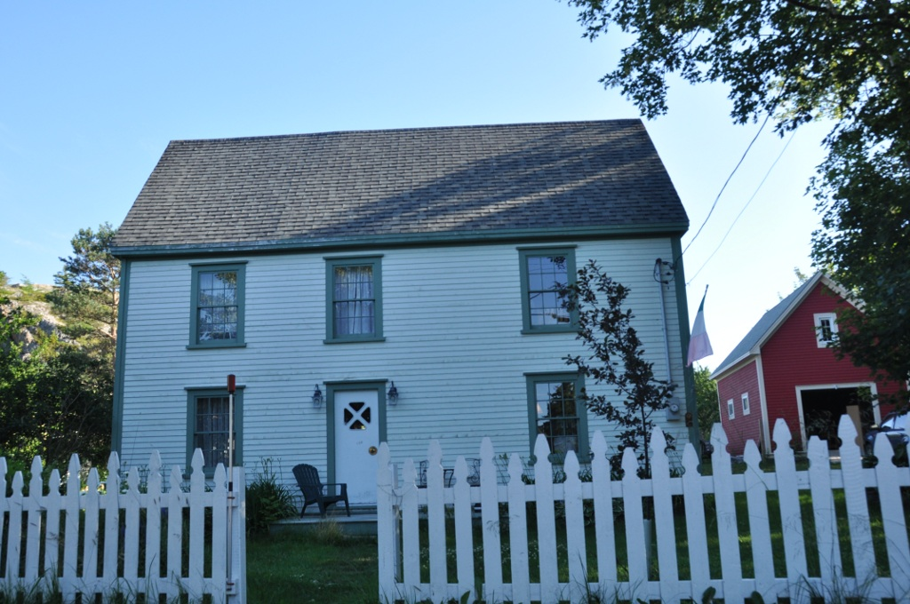 Joseph Bartlett House, Brigus, Newfoundland.